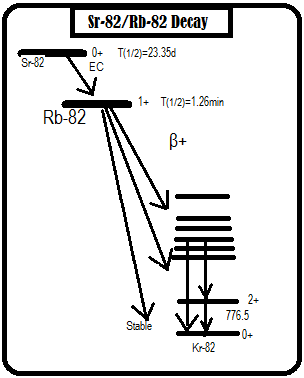 This figure depicts the mode of decay for Rb-82